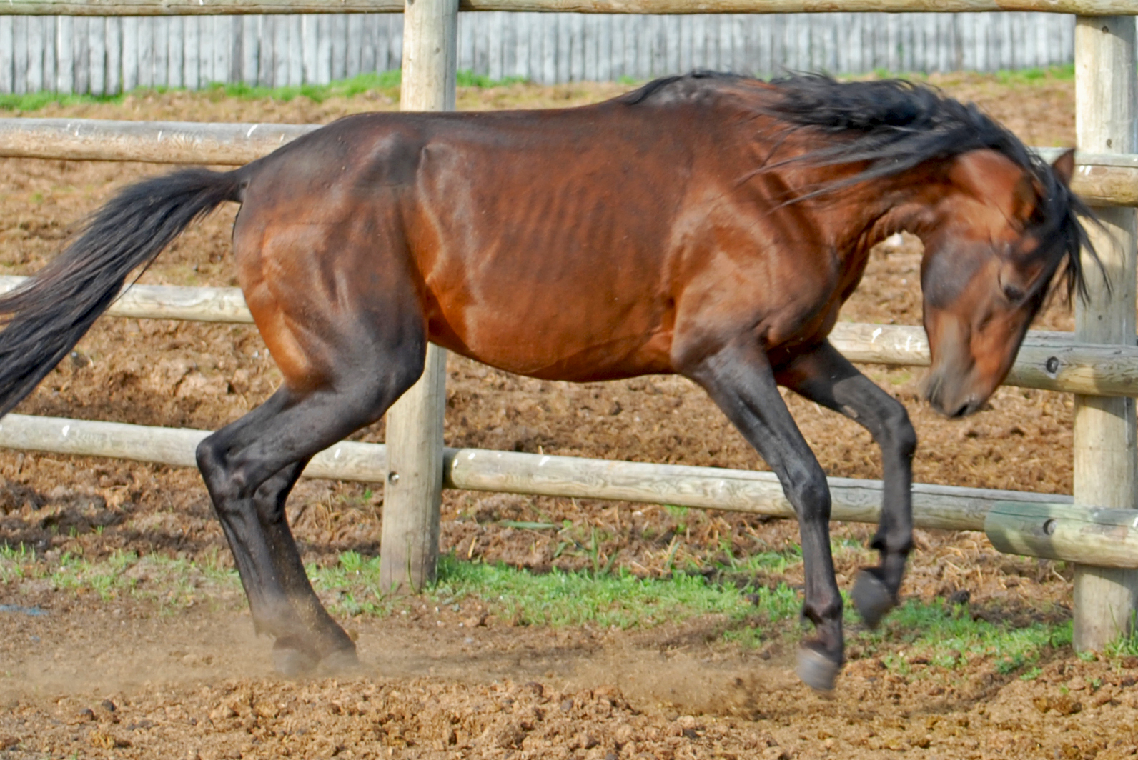 Blood bay horse playing in turnout